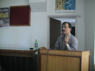 Ravindra Prabhat addressed in Nepal Academy ( nepali:नेपाल प्रज्ञा प्रतिष्ठान) in Katrhmandu, 15 September 2013.